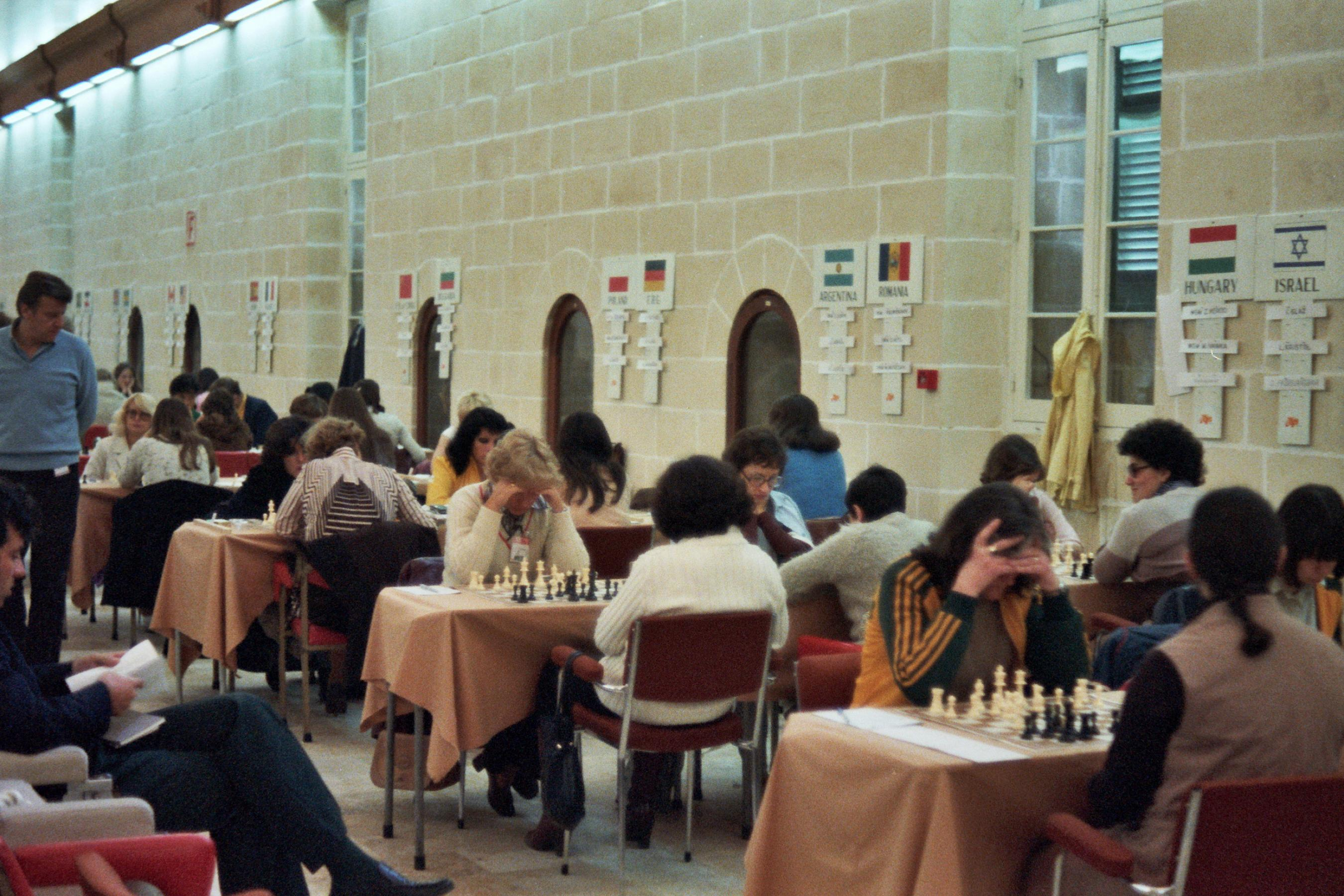 Hall of tournament (former hospital) in Valletta, Chess Olympiad 1980, Photographer Gerhard Hund.